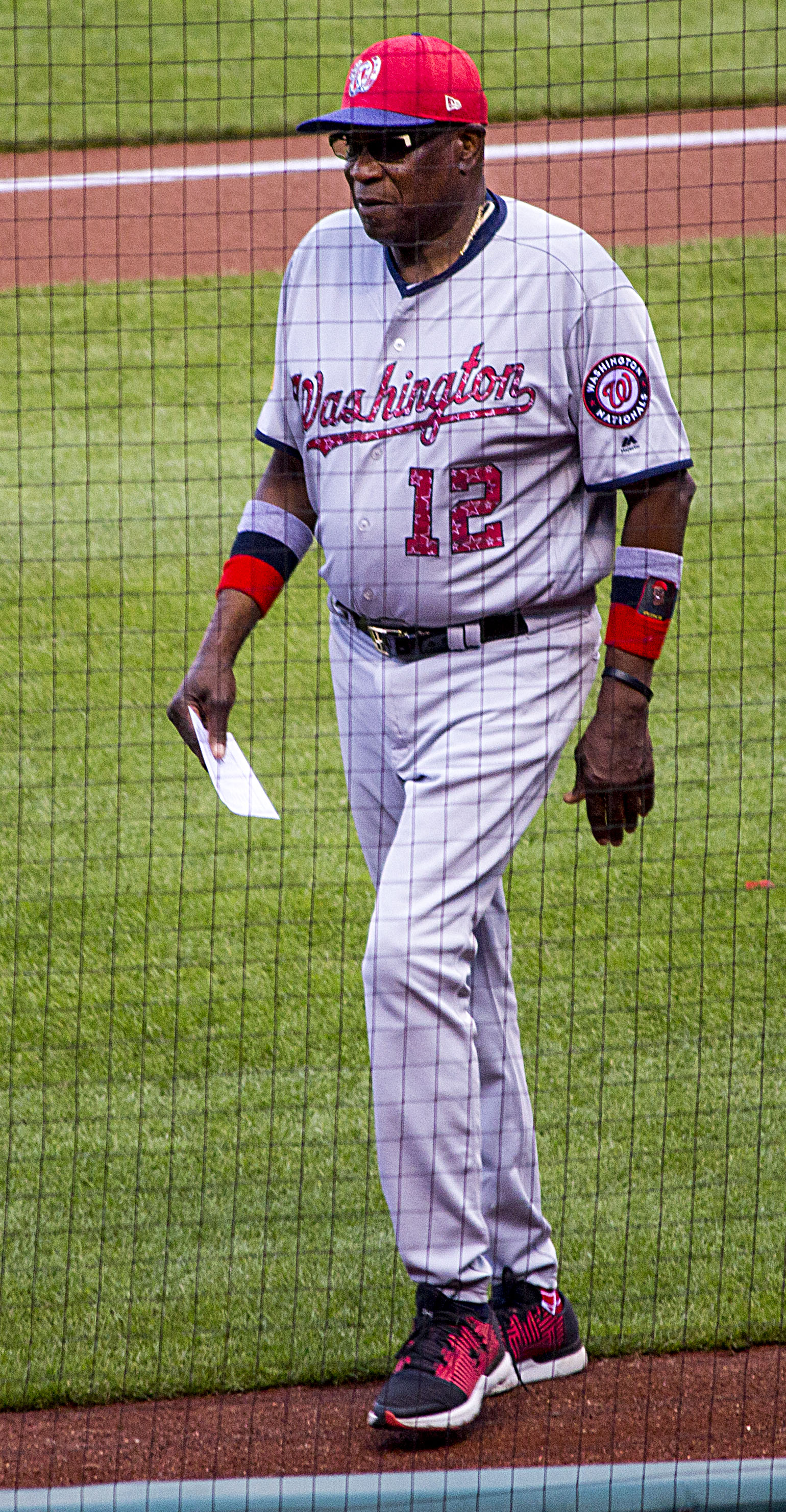 Dusty Baker, Manager Washington Nationals, 2017